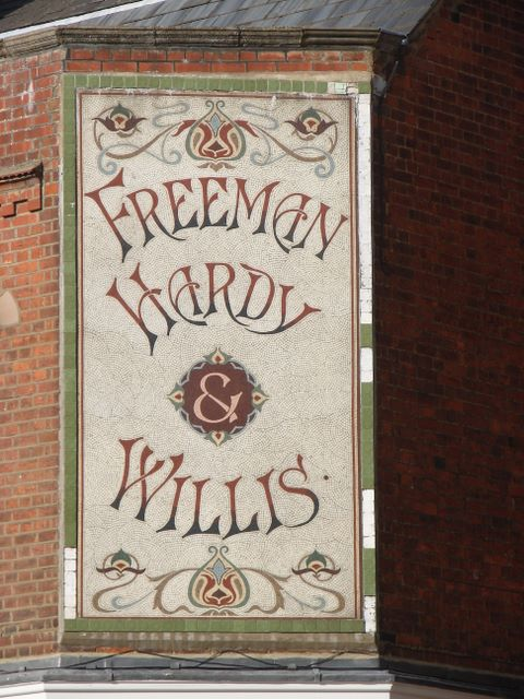 Freeman, Hardy & Willis Sign, Hitchin The Freeman Hardy Willis sign, painted on plaster in an Art Nouveau red and green font, can be seen at the south west corner of Hitchin Market Square. The shoe retailer was established in 1875. For many years, there was a branch in nearly every town in the United Kingdom. After various takeovers and amalgamations, the firm ceased to exist in 1996. The sign in the photograph featured in a Hitchin urban design survey in 2007 and met with high approval from the survey respondents.